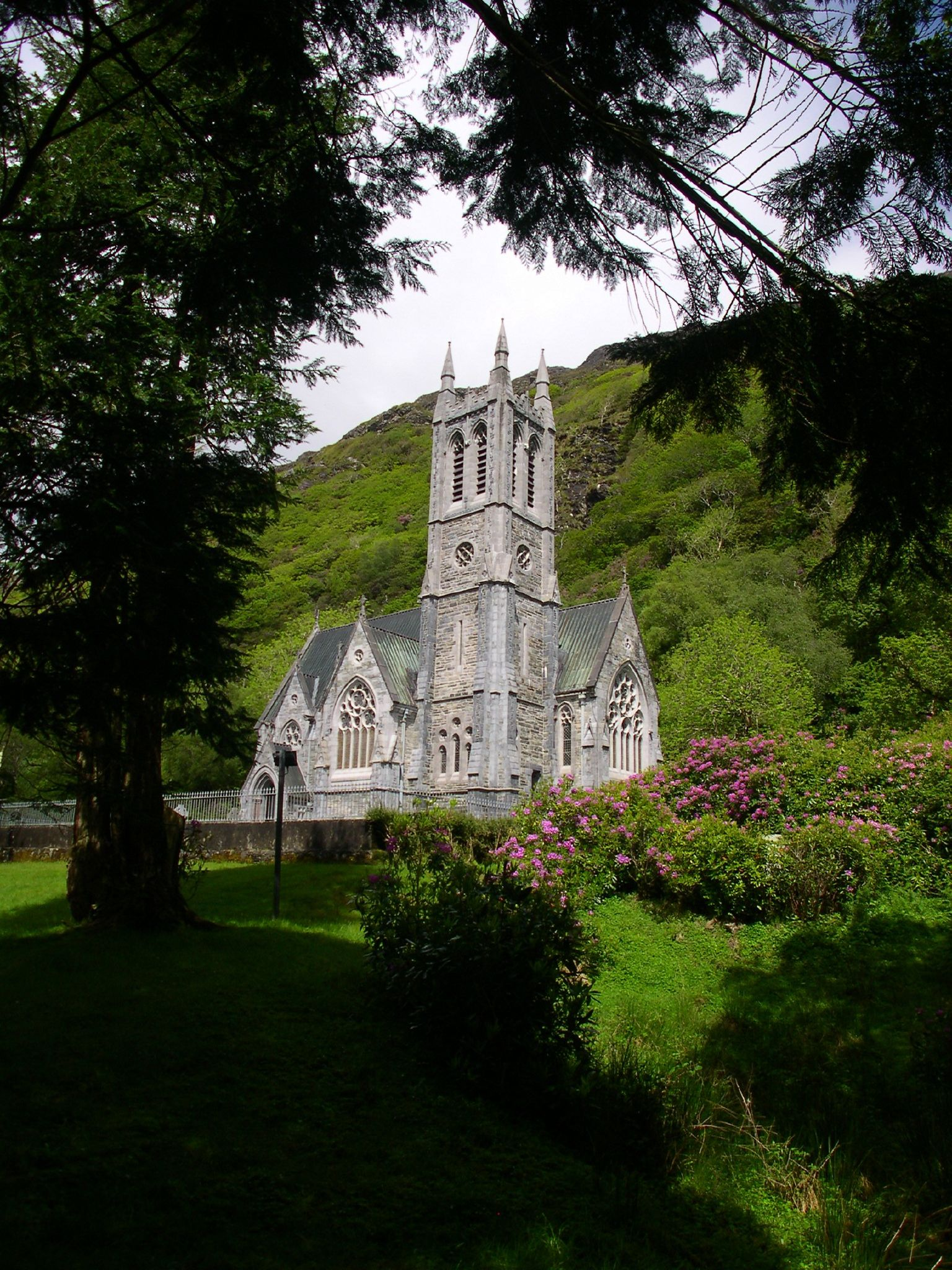 Gothic-style church, Kylemore Abbey, Letterfrack, Co. Galway, Ireland